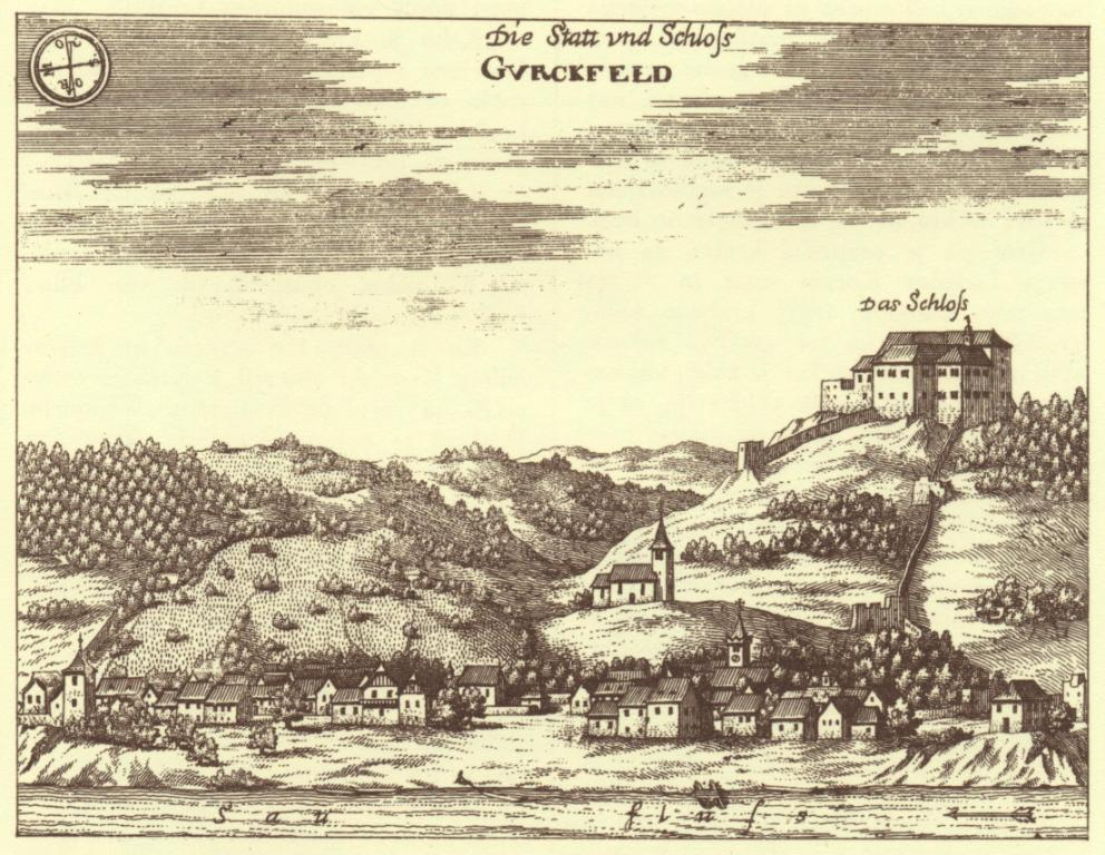 The town and castle Krško (Slovenia), technique: Copper engraving